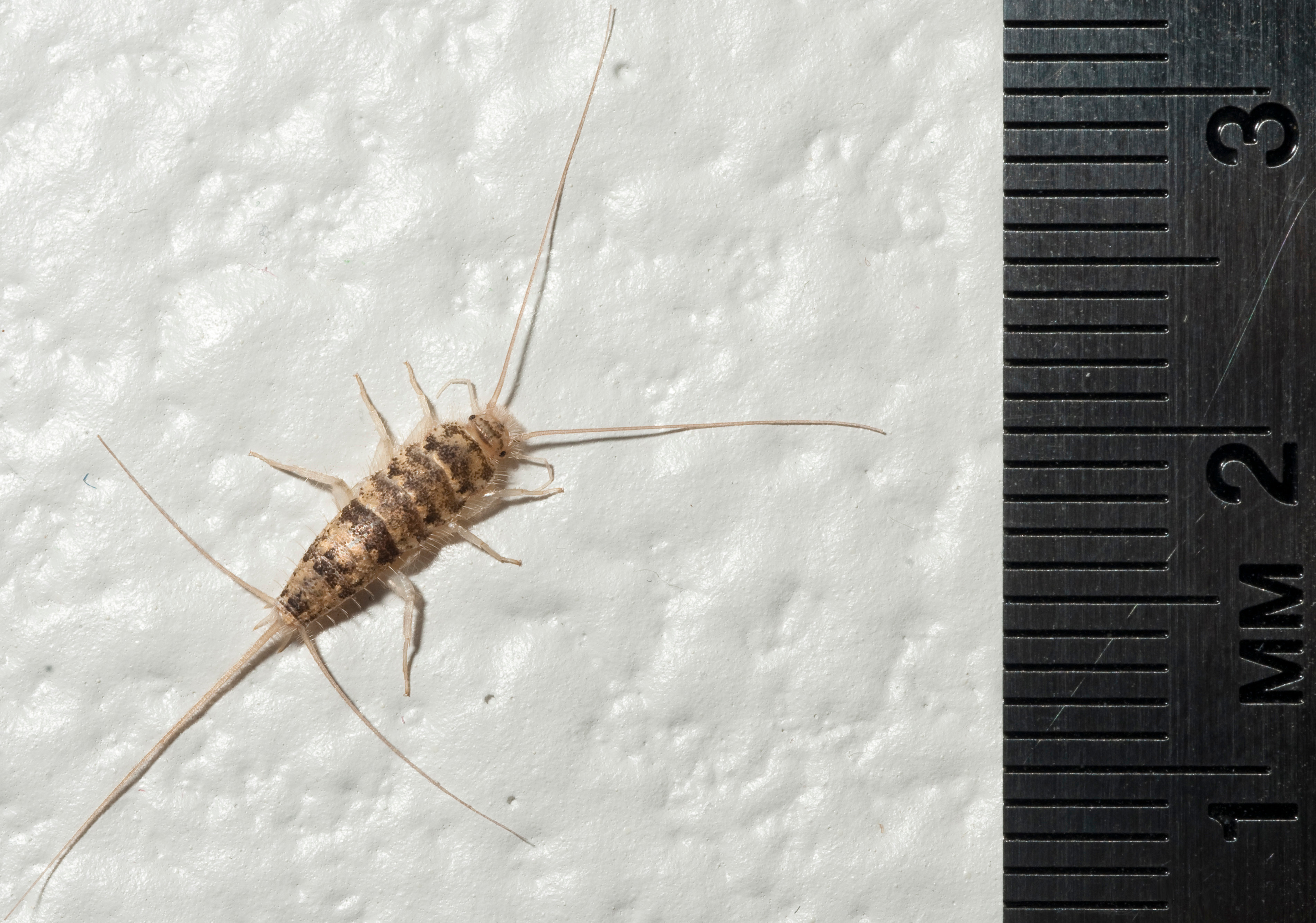 High-resolution photograph of a Silverfish-related (insect) with ruler (metric) for scale. Found in my house in Dallas, TX, USA. This is a Ctenolepismatinae, very probably Thermobia domestica